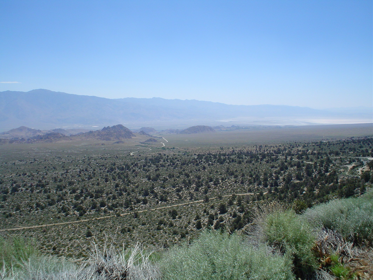 The Owens Valley, Alabama Hills, and Owens Lake, California, USA. View from the Whitney Portal road about 7500 MSL. Photo by Mike Teague June 2005.